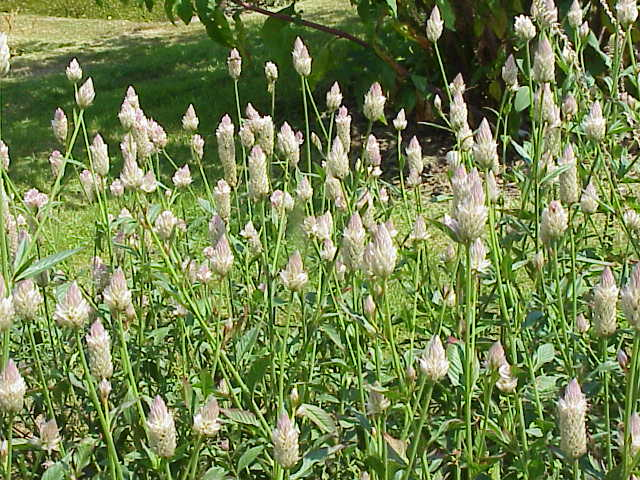 Species: Celosia argentea Family: Amaranthaceae Image No. 3